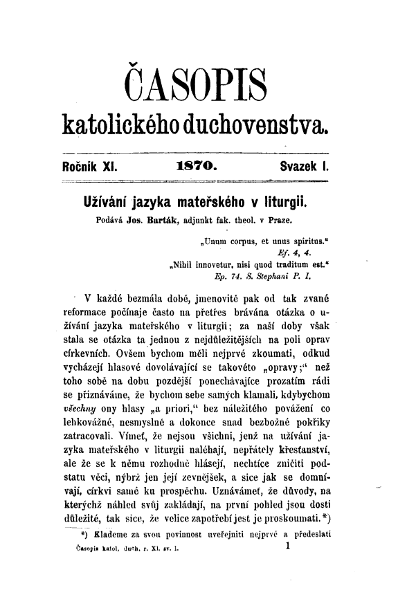 Title page of Časopis katolického duchovenstva (Magazine of Catholic priests), vol. 11, issue 1, partially showing an article that discusses the usage of mother tongue in liturgy.